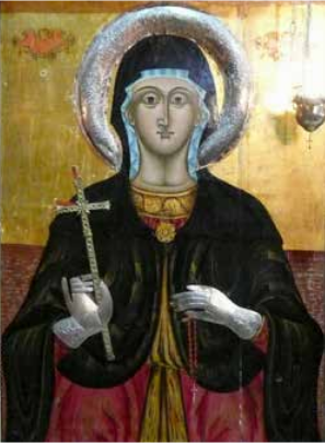 Theodosij_of_Veles_icon in the Church_of_Saint_Petka_in_Galičnik.